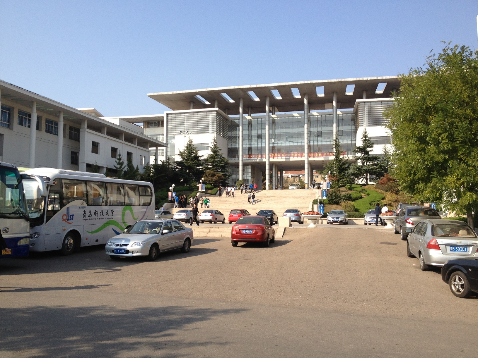 Teaching Building on Laoshan Campus of Qingdkeda